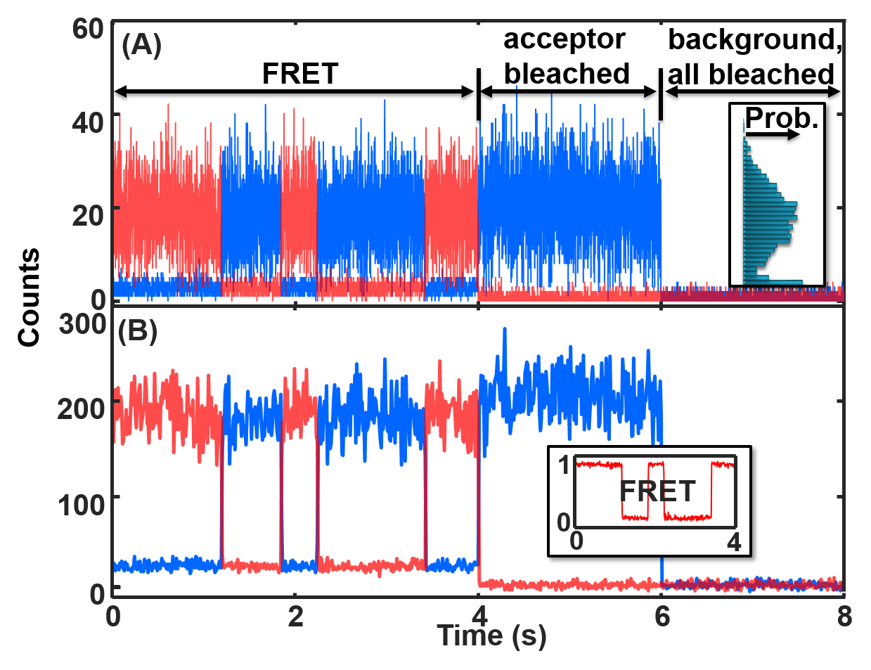 An example of data treatment.